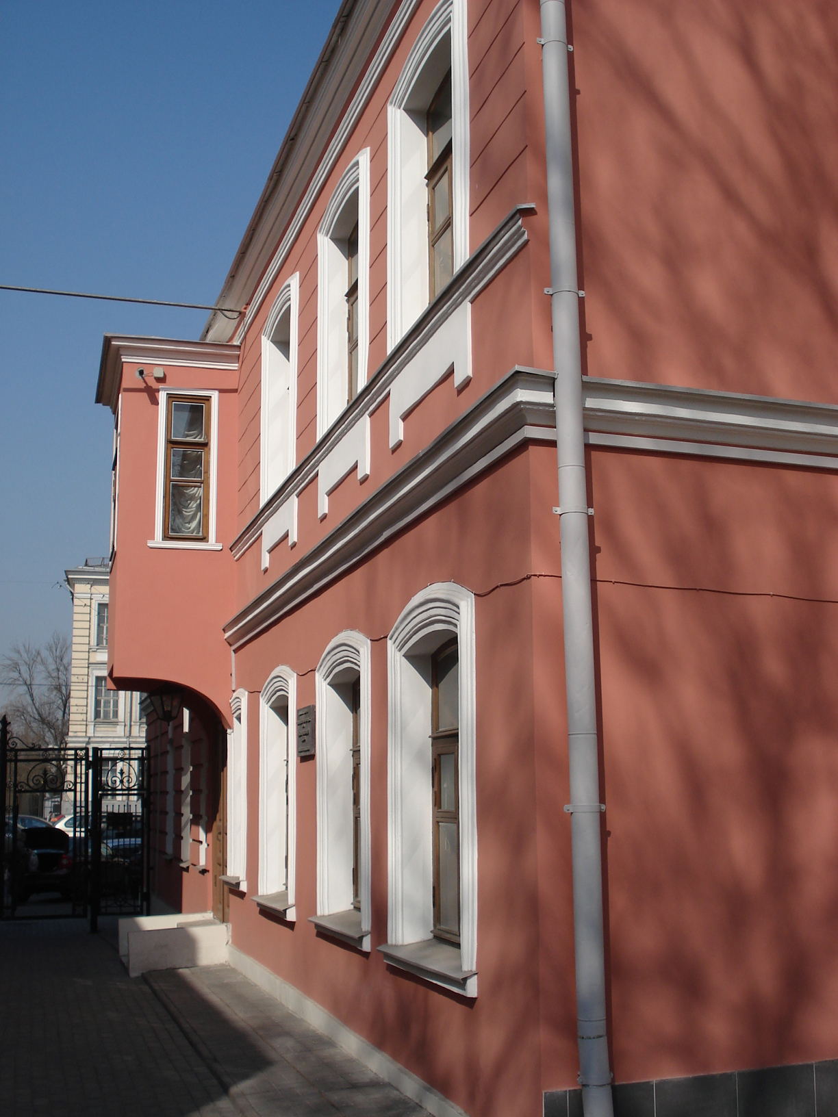 Anton Chekhov house in Moscow (1886-1890), Sadovaya-Kudrinskaya street 6